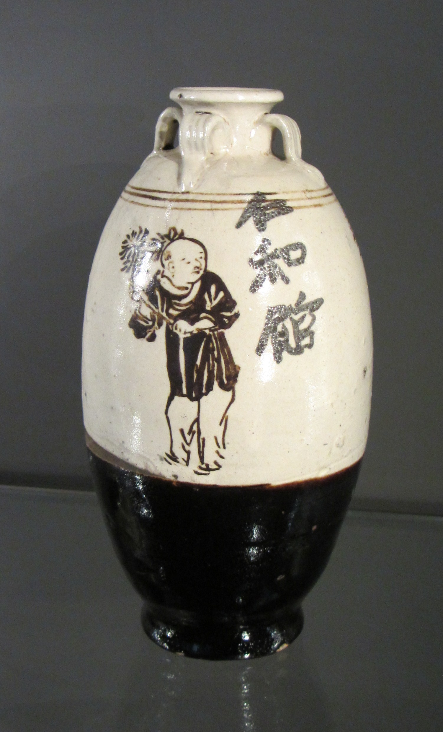 Jin dynasty Cizhou ware iron-pigmented brown slip and cream slip wine bottle with picture of boys and an inscription "Benevolence and Harmony Tavern" (Renhe guan 仁和館). Jin dynasty, 1115-1234. British Museum PDF 316.